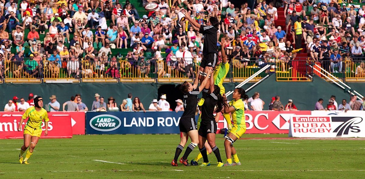 New Zealand playing Australia in the Dubai Women Sevens tournament in 2012